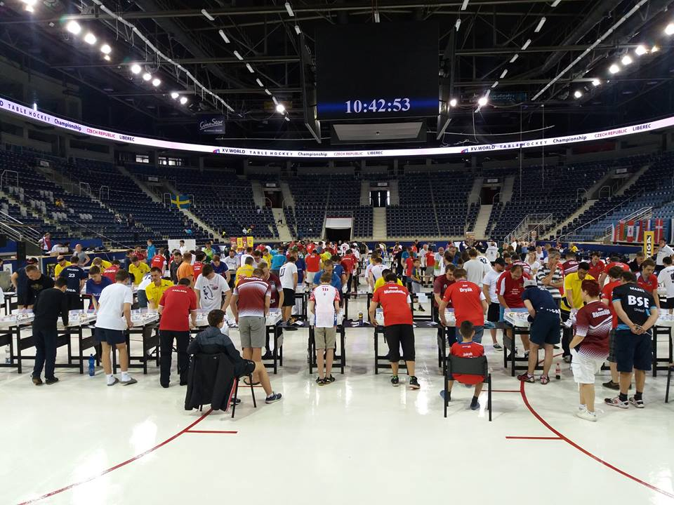 Action from the World Table Hockey Championship 2017 in Liberec, Czech Republic.